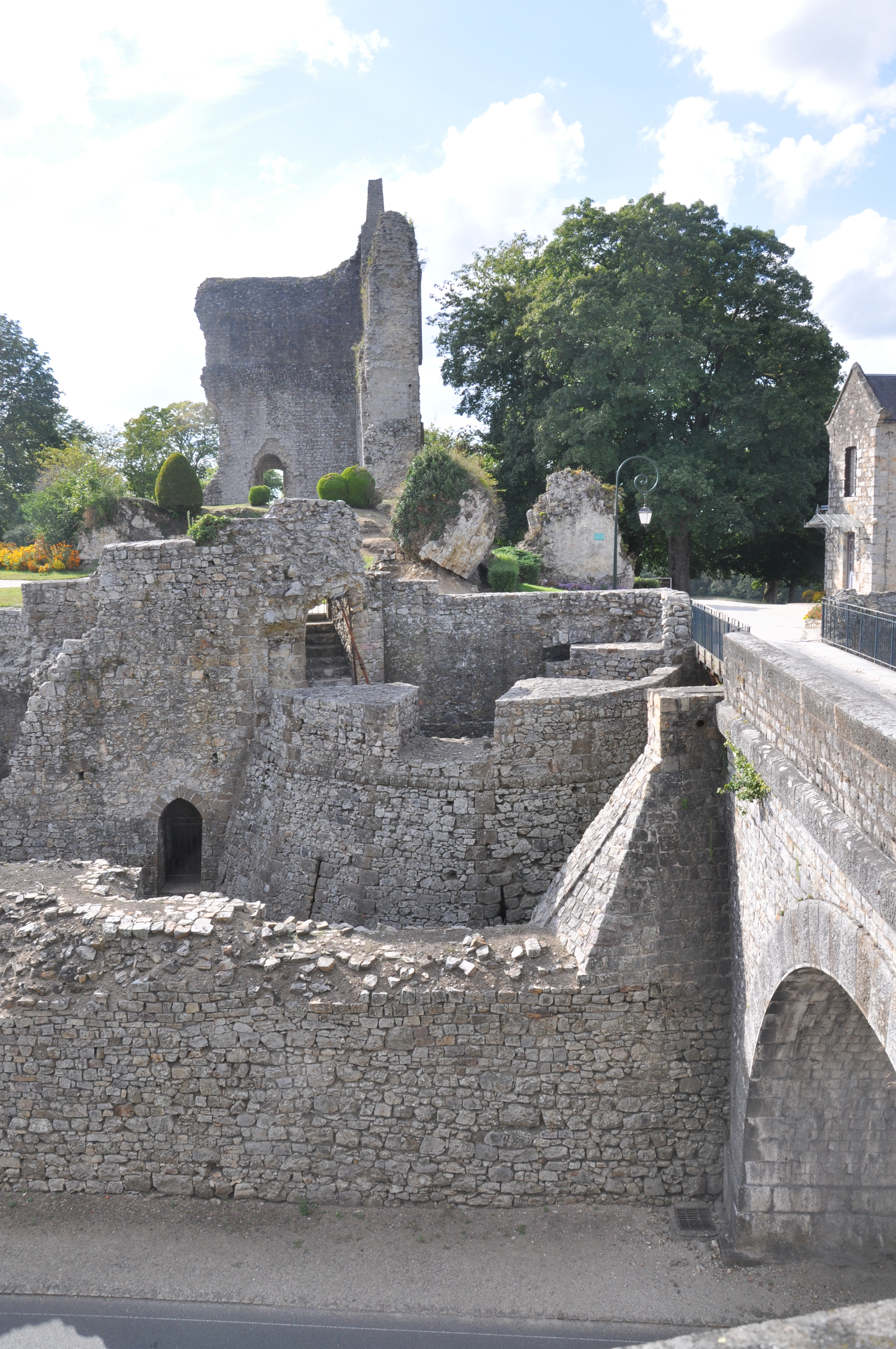 Castle of Domfront (France, Normandy)